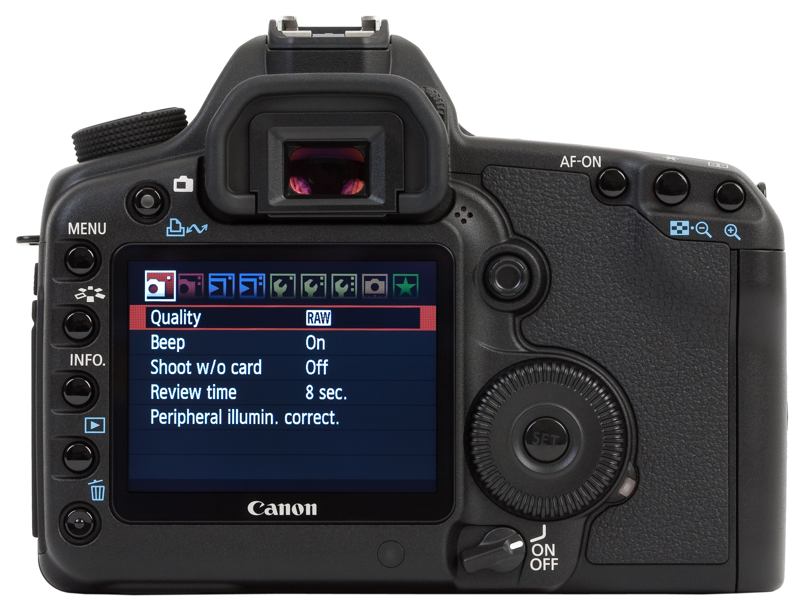 Back of the Canon EOS 5D Mark II camera.